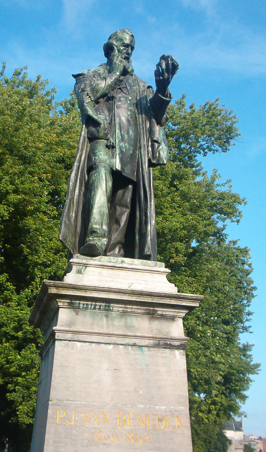 Statue of the biologist Pierre-Joseph van Beneden at the Pierre-Joseph van Benedenlaan in Mechelen, Belgium (birth place of the figure). The statue was inaugurated at 24 July 1898 (inscription on the back side of the monument). On the front you can read "P.J. VAN BENEDEN 1809-1894". At the sides you can read, in Dutch at the one side and in French on the other "To the world-famous naturalist and professor". At the side of the Dutch inscription you may read "Jul. Lagae" beneath the figure's feet. This is the name of Jules Lagae (1862-1931), the Flemish sculptor and creator of the statue.